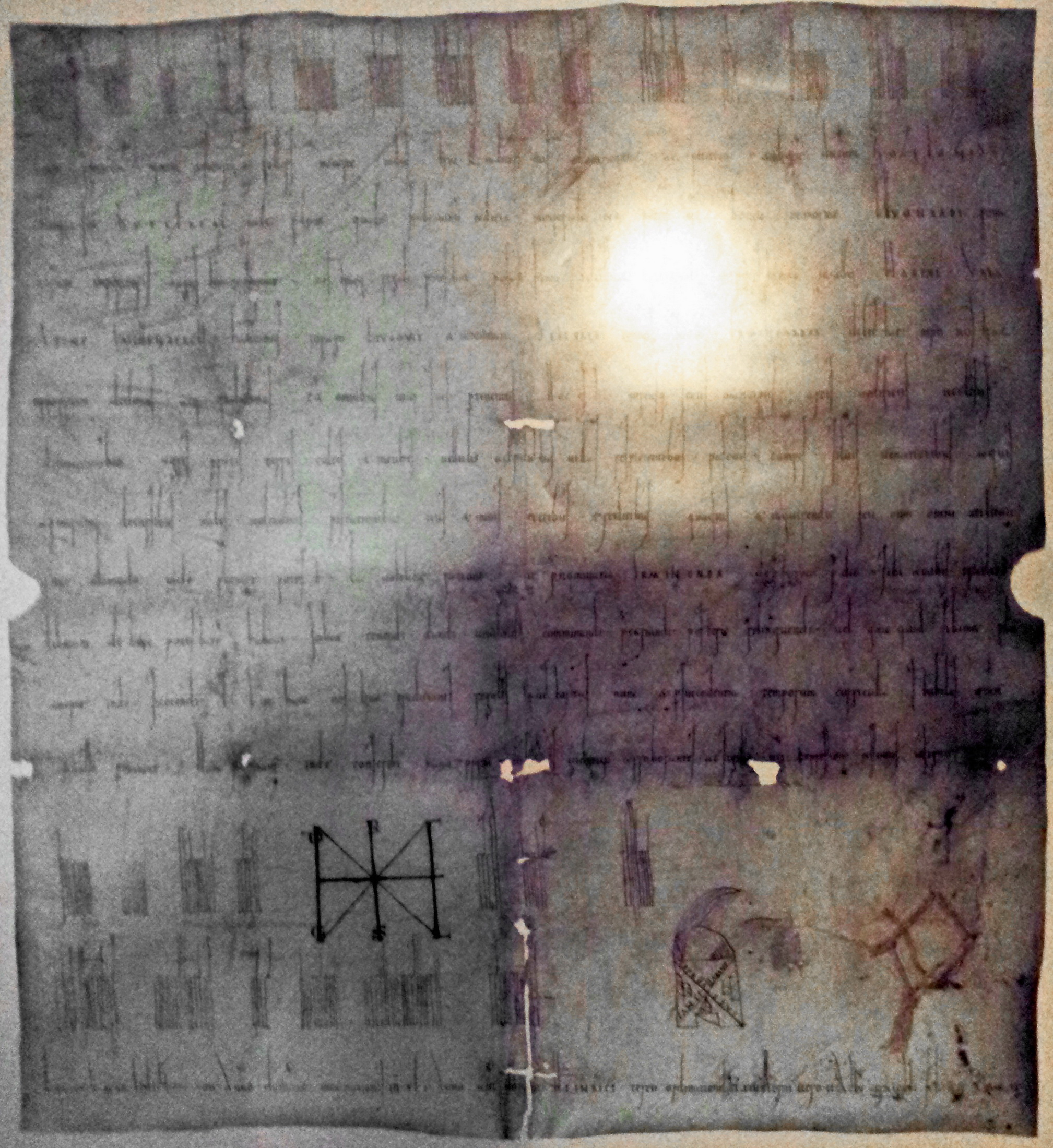 Copy of the oldest manuscript (a deed from Holy Roman Emperor Henry III of 1041) mentioning the name of "Falchenberch". Local history collection of Museum Het Land van Valkenburg, Limburg.